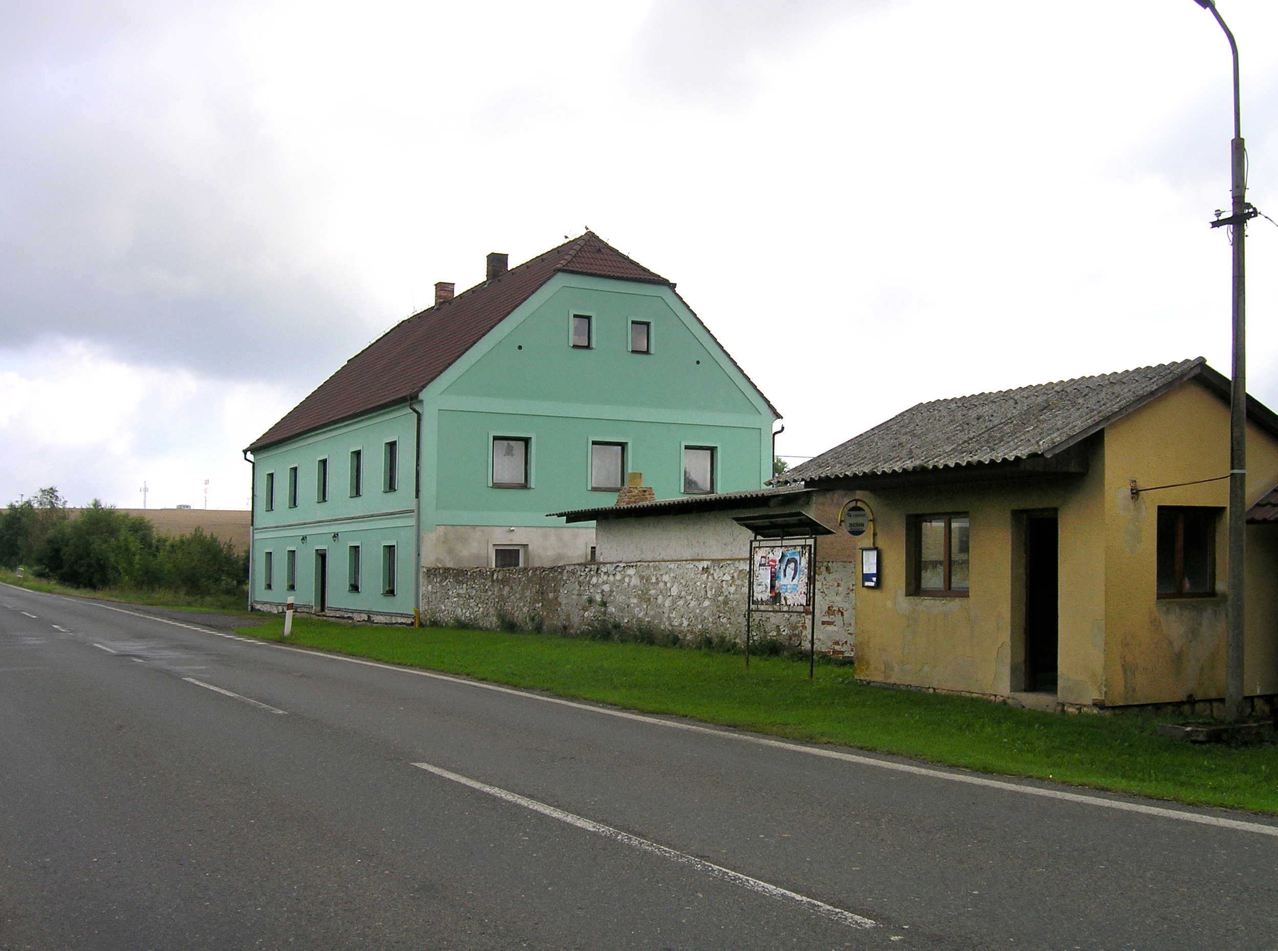 Borová, part of Zbraslavice, Czech Republic